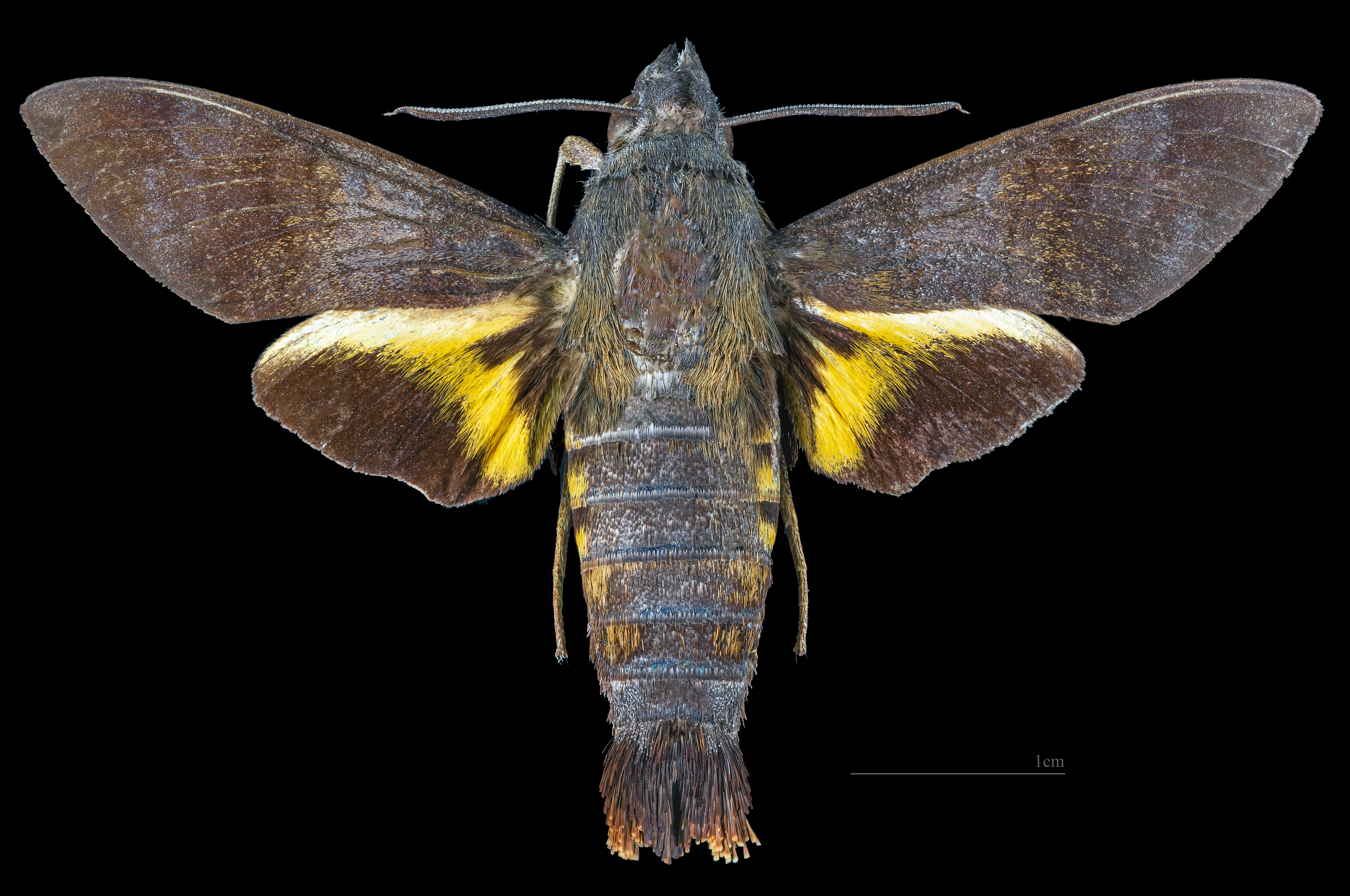 Macroglossum sylvia - Dorsal side Collection of the Mathematician Laurent Schwartz